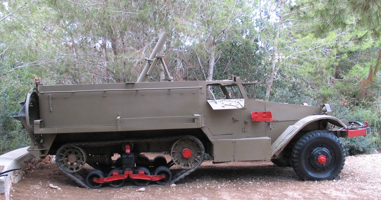 Description: Israeli Makmat 120 mm ("Makmat" stands for heavy self-propelled mortar) in Beyt ha-Totchan, Zichron Yaakov, Israel. 2005. Source: Photo by me, User:Bukvoed.